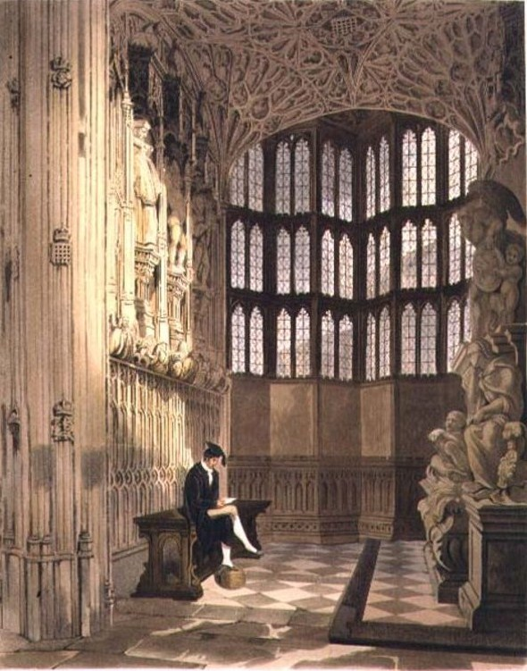 Henry VII Chapel, Westminster Abbey (engraving)